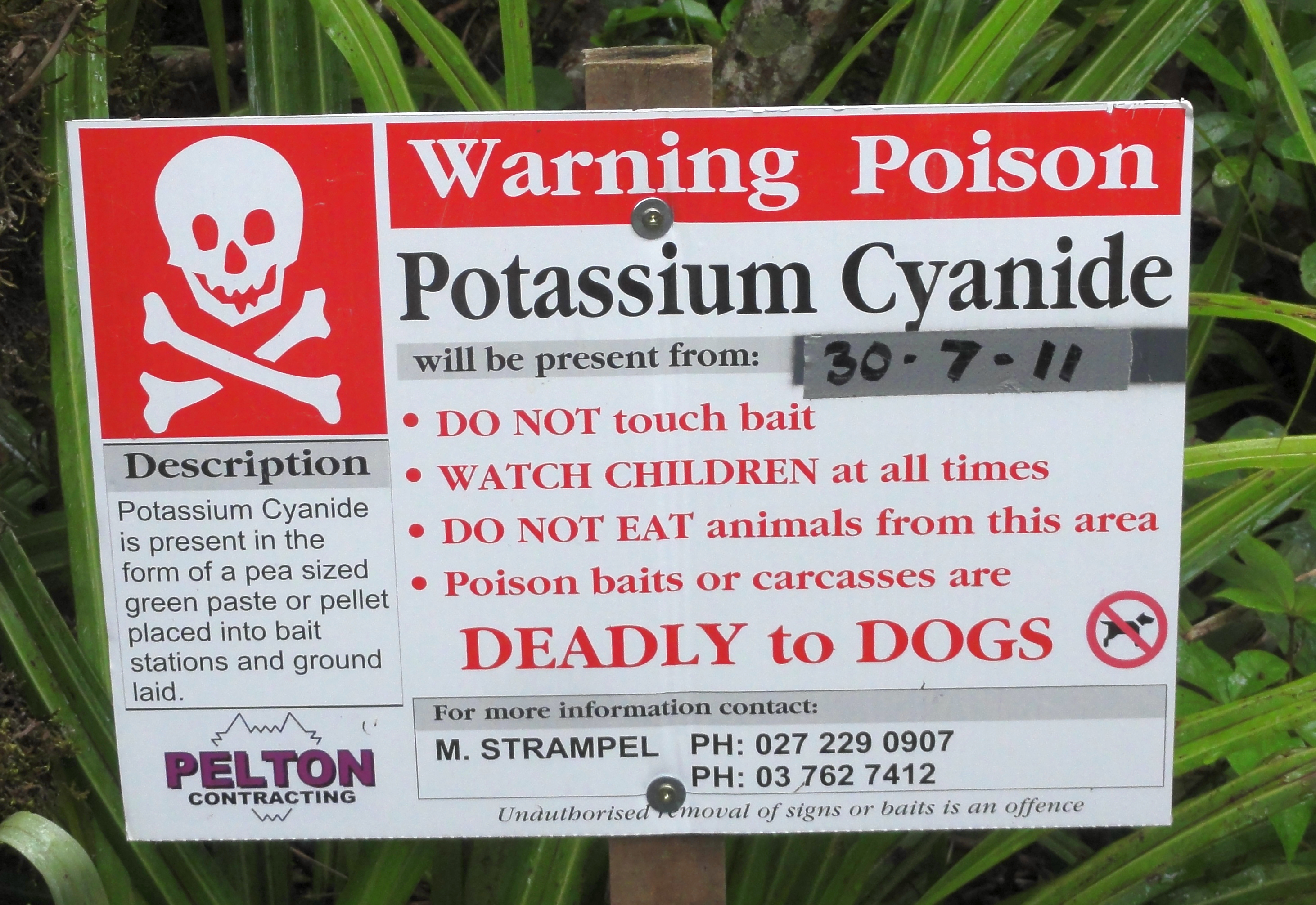 Warning sign for potassium cyanide bait to kill Possum in New ZealandUnknown warnschild vor mit natriumzyanid vergifteten pelletködern zur bekämpfung von possums in neuseeland